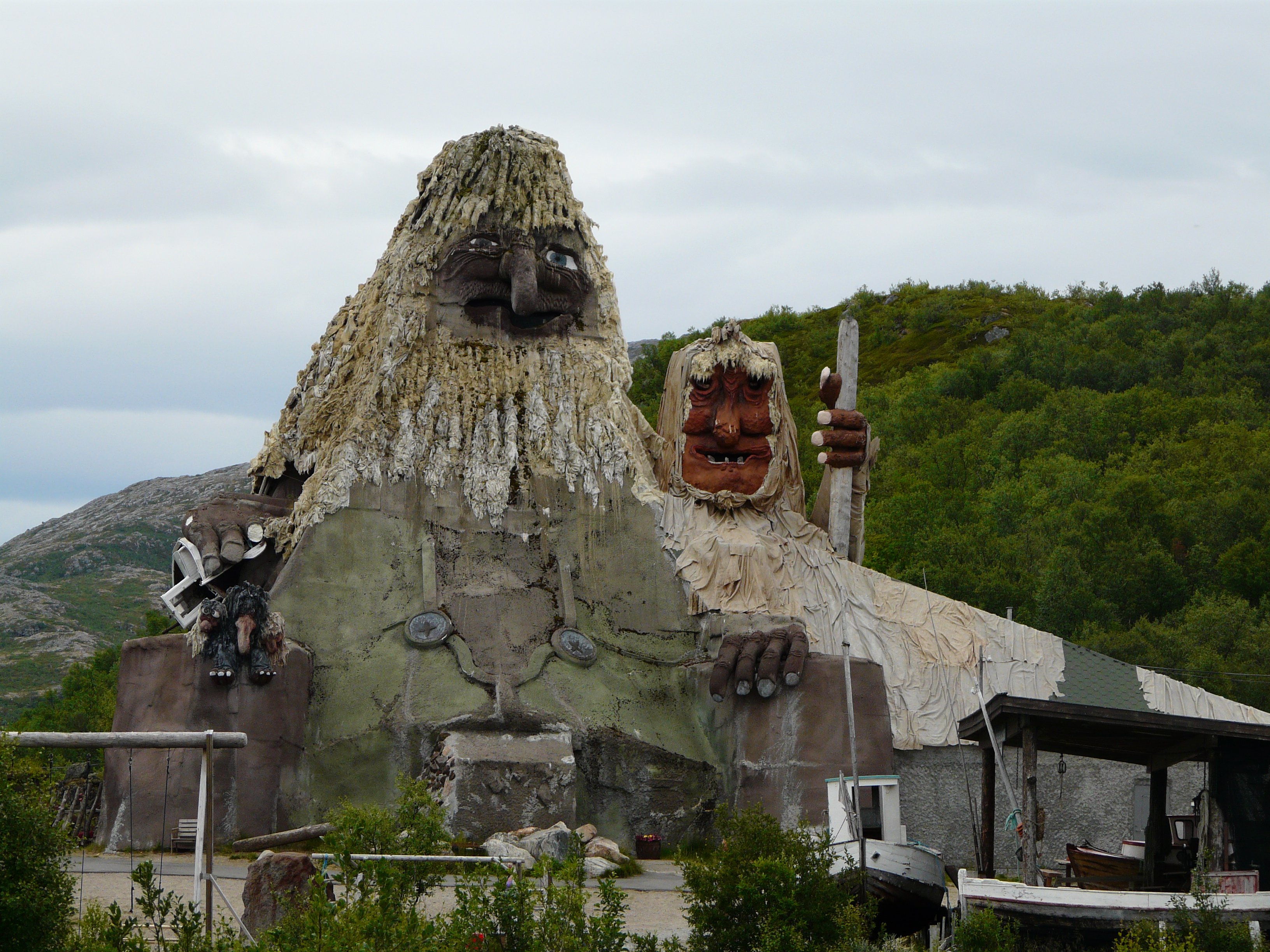 Front image of Senjatrollet and Trollkjerringa, summer 2009.